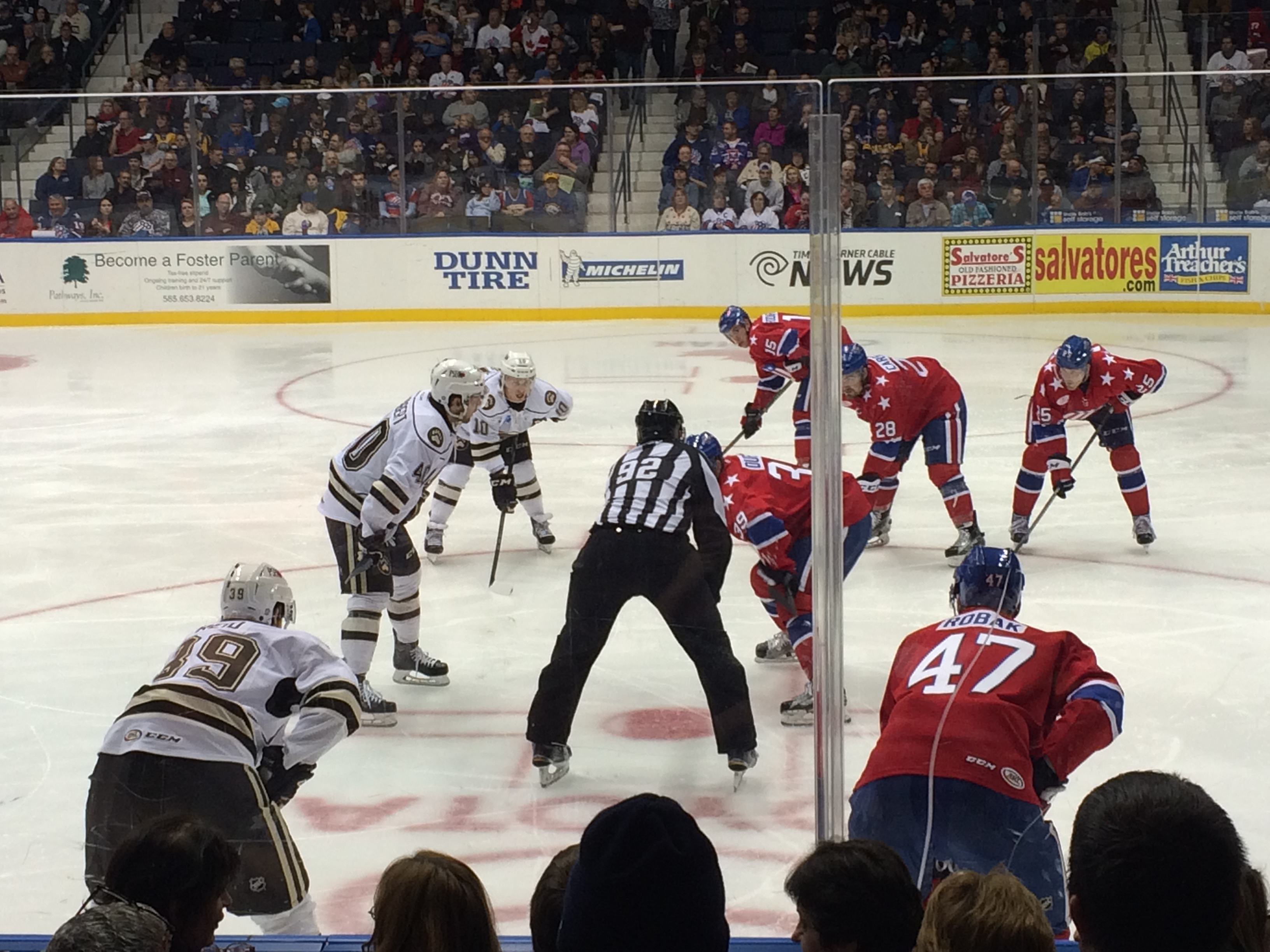 A faceoff during the Rochester Americans 60th anniversary game on January 8th, 2016.